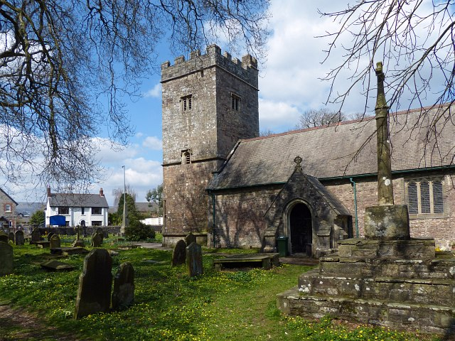 The Rectorial Benefice of Cwmbran Llanfihangel Llantarnam The Church of St Michael's & All Angels. This is the view of this Grade II listed building from the south. Parts of the churchyard preaching cross date from the 15th century.